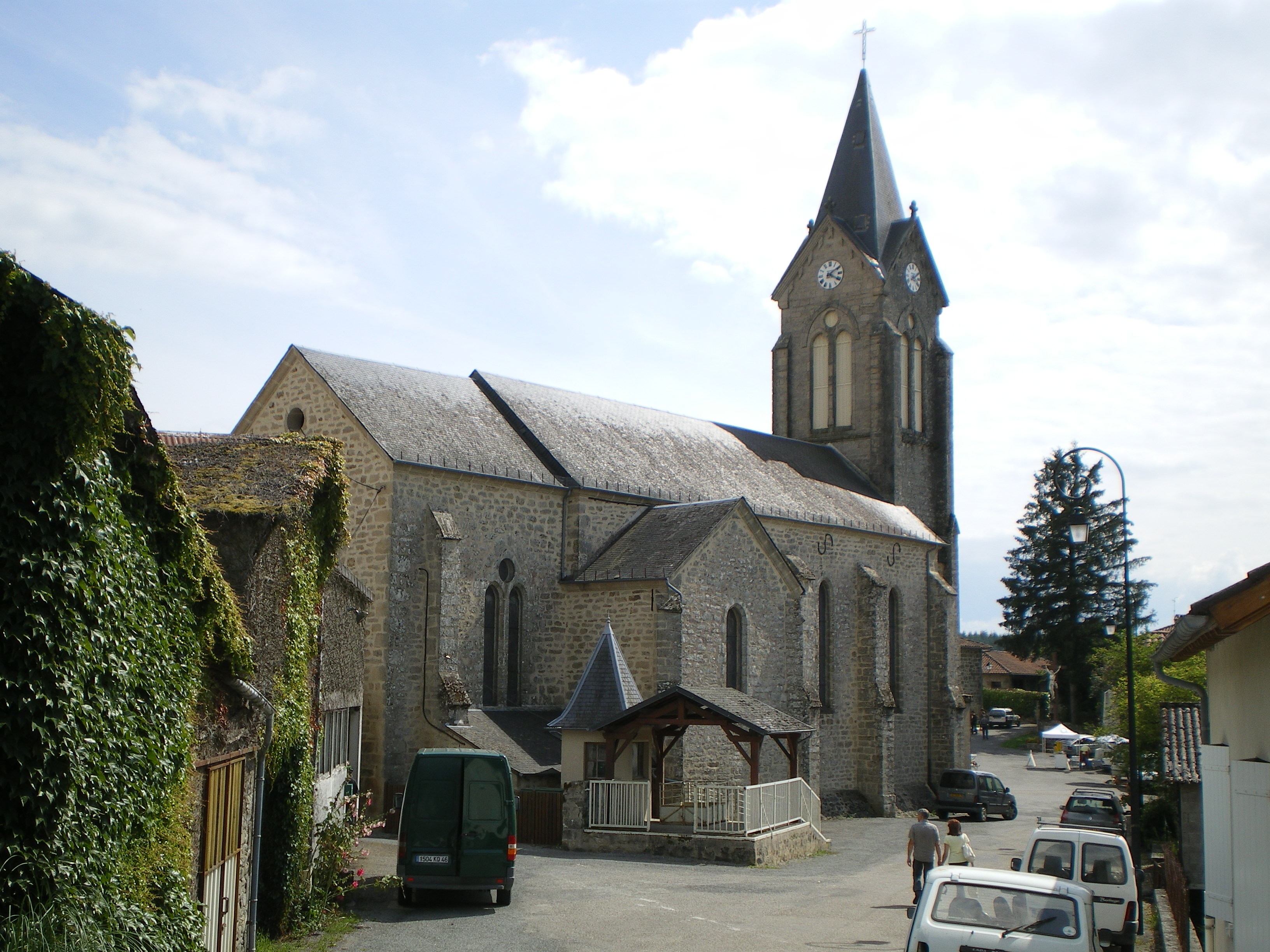 Church in Latronquière, Lot, France